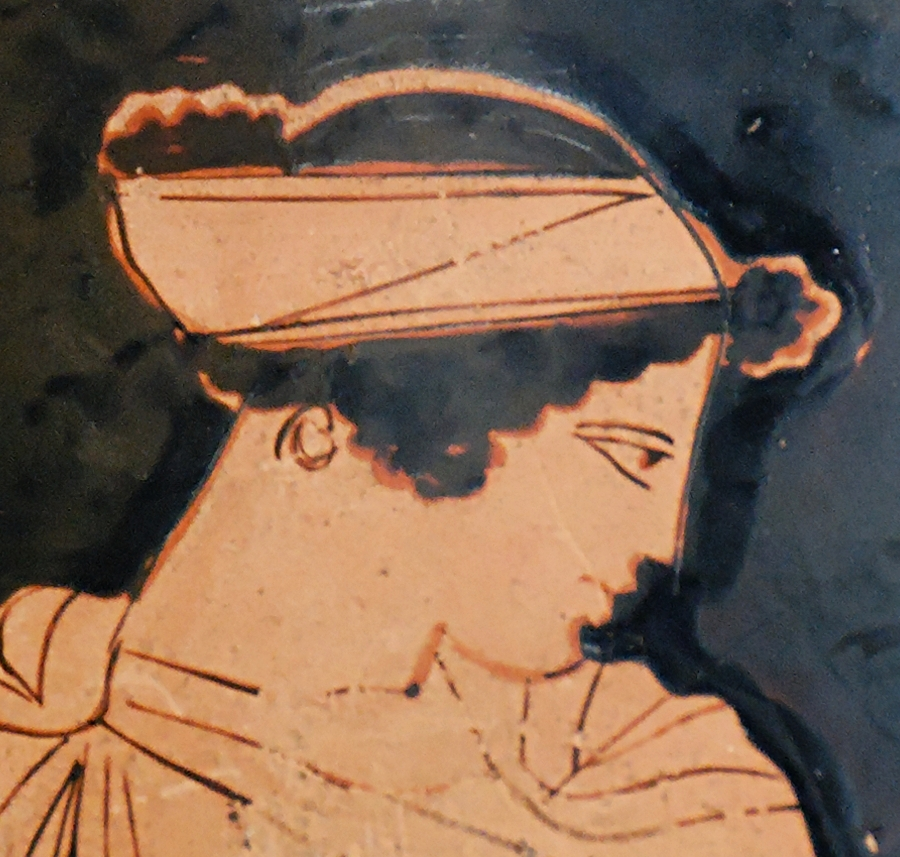 Helen's head, detail from a scene representing Menelaus' meeting with Helen. Attic red-figured krater, ca. 450 BC–440 BC. From Gnathia (now Egnazia, Italy).